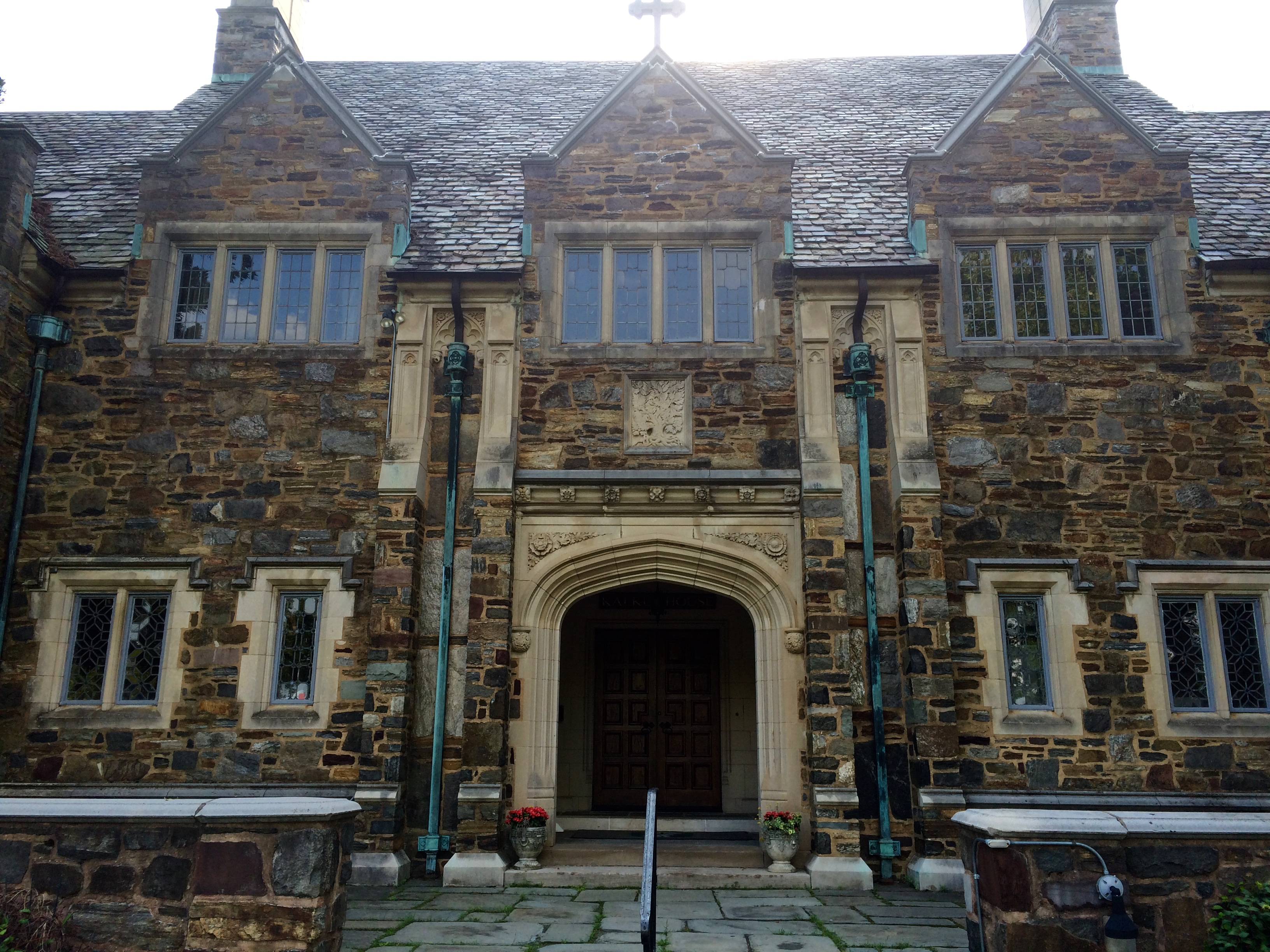 The Manor House, the centerpiece of the campus of the Princeton Academy of the Sacred Heart, was built in 1930 by Matthews Construction Company and designed by the architect Rolf Bauhan for Helen and Thomas Dignan